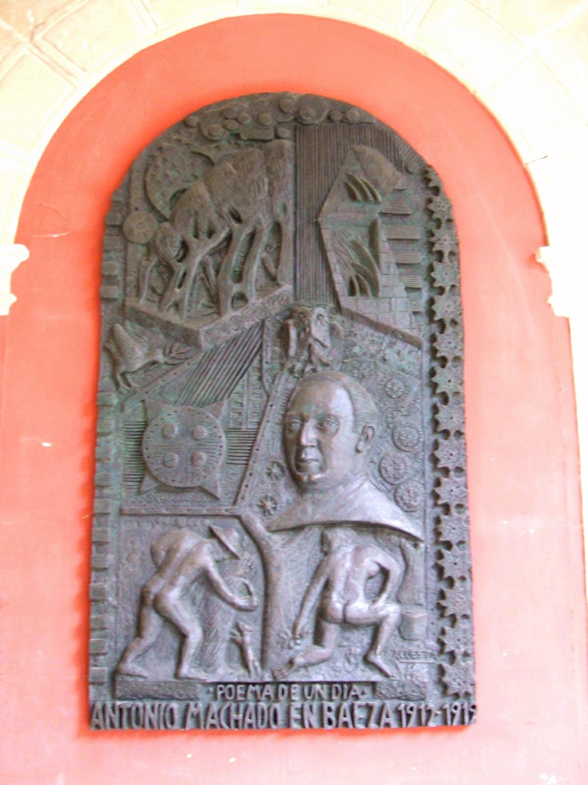 Placa en honor a Antonio Machado en la Antigua Universidad de Baeza. Siendo Instituto de Bachillerato, el insigne poeta impartió aquí clases de Gramática Francesa desde 1912 hasta 1919.